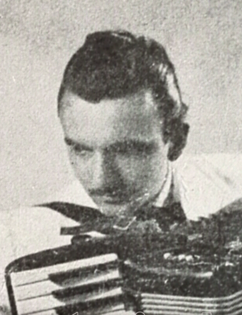 Bruno Aragosti, Italian musician, with accordion. Probably near 1950.